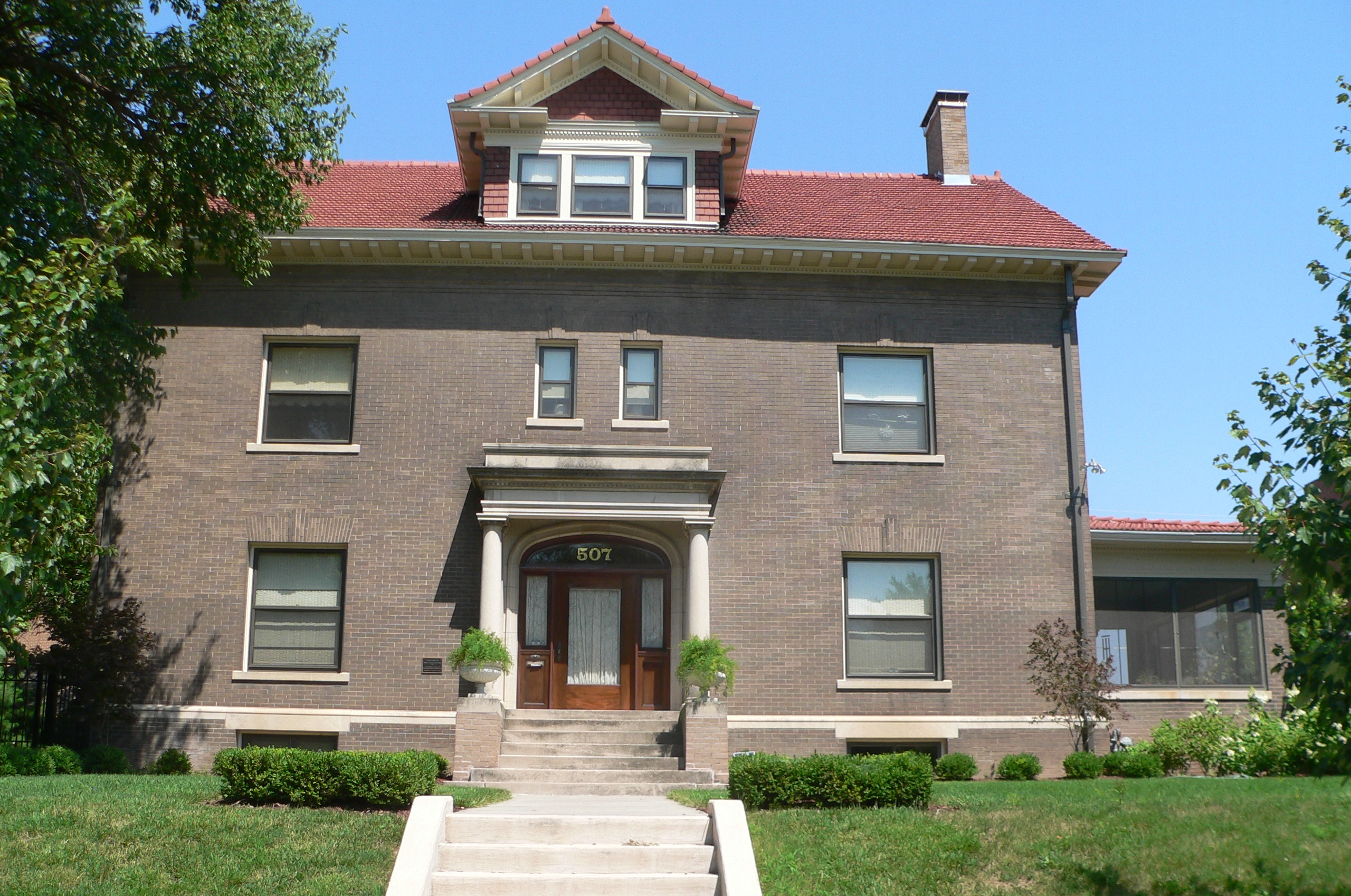 Charles D. McLaughlin house, located at 507 S. 38th Street in Omaha, Nebraska; seen from the west.